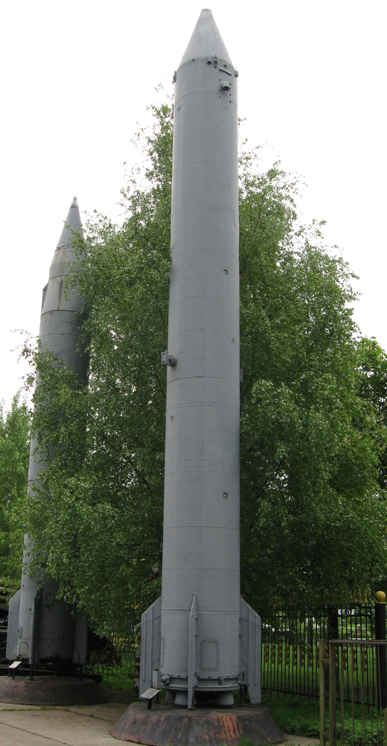 The Soviet one-stage SLBMs. An exhibit in the Central museum of armed forces (Moscow). Front - Р-21 (SS-N-5 Serb), rear - Р-13 (SS-N-4 Sark).